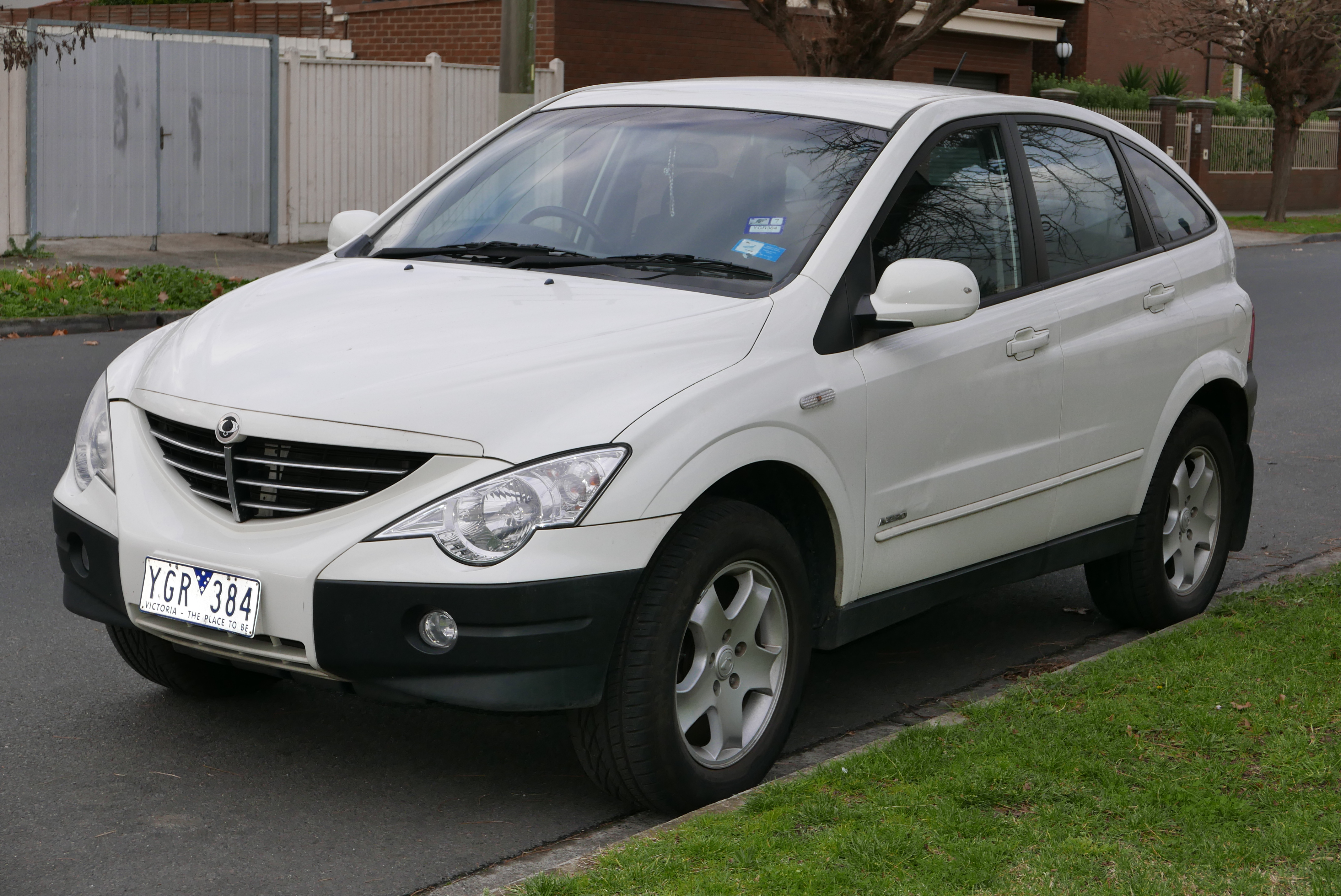 2007 SsangYong Actyon (C100) A230 wagon. Photographed in Fairfield, Victoria, Australia. Vehicle registration enquiry resultsJurisdictionVictoriaRegistrationYGR384Chassis codeKPTD0B16S7P031942Engine code16195122000918Compliance date2007-03Year of manufacture2007